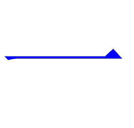 Chinese radical # 1 (one)